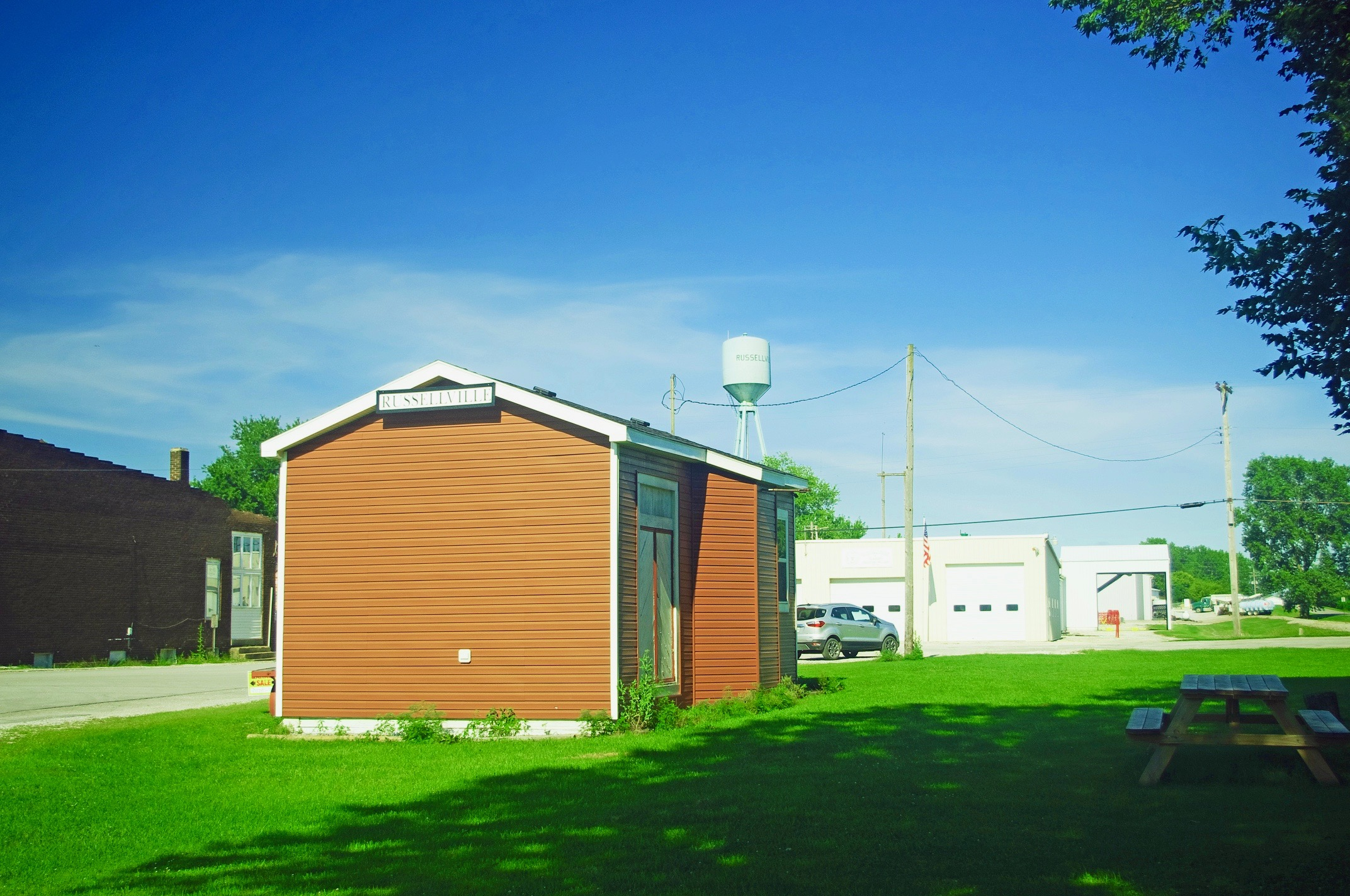 Former train station in Russellville, Indiana, United States.